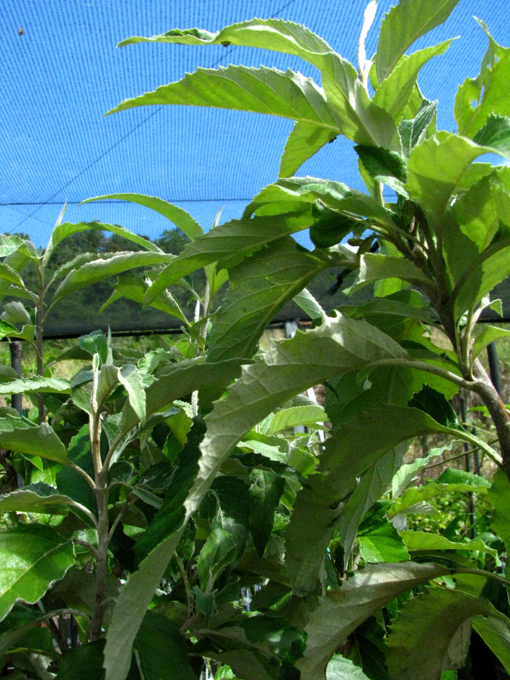 Kauai remya Asteraceae Endemic genus to the Hawaiian Islands (Kauaʻi only) Very rare and endangered Kauaʻi (Cultivated)